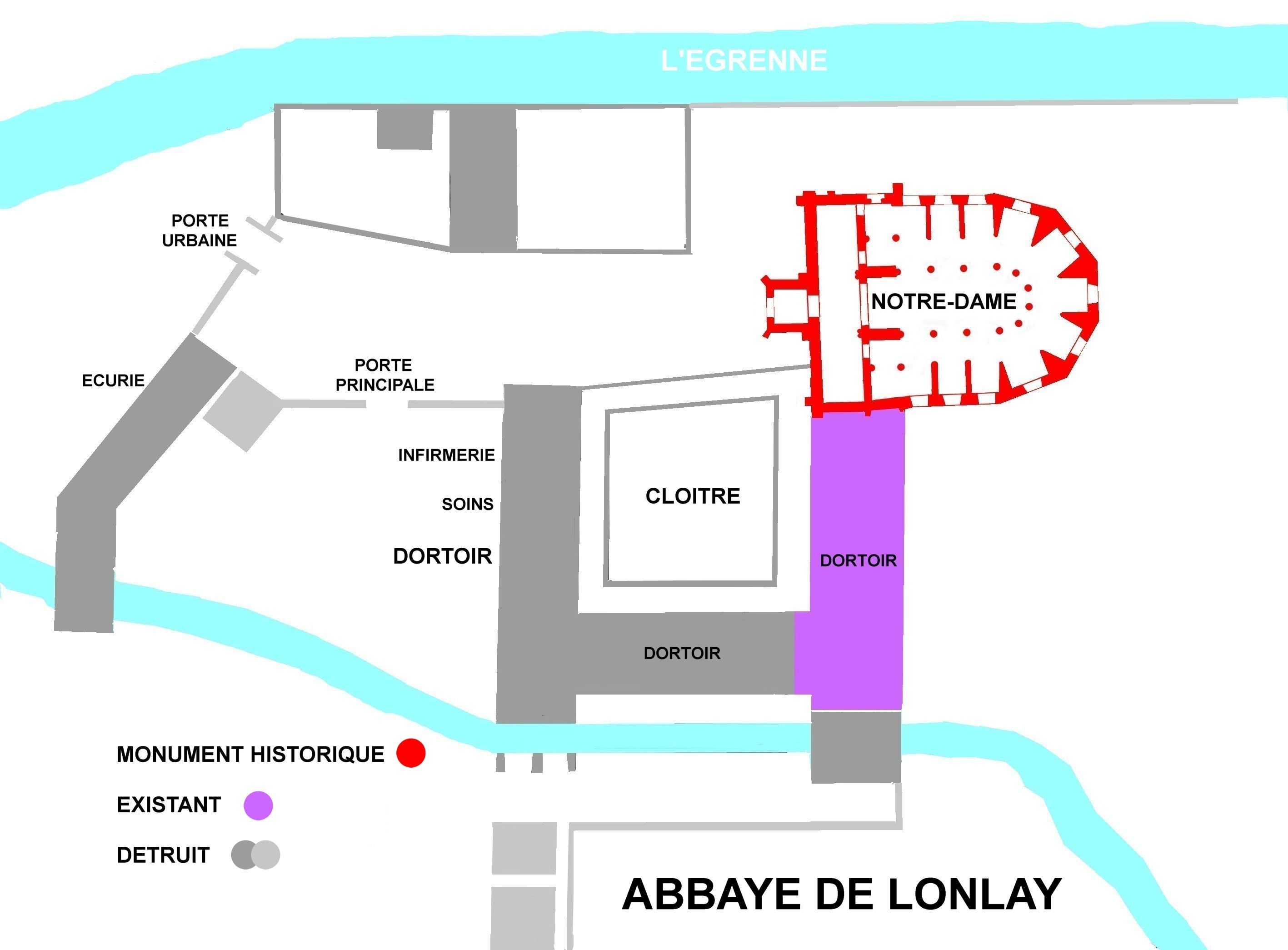 Plan de l'Abbaye de Lonlay